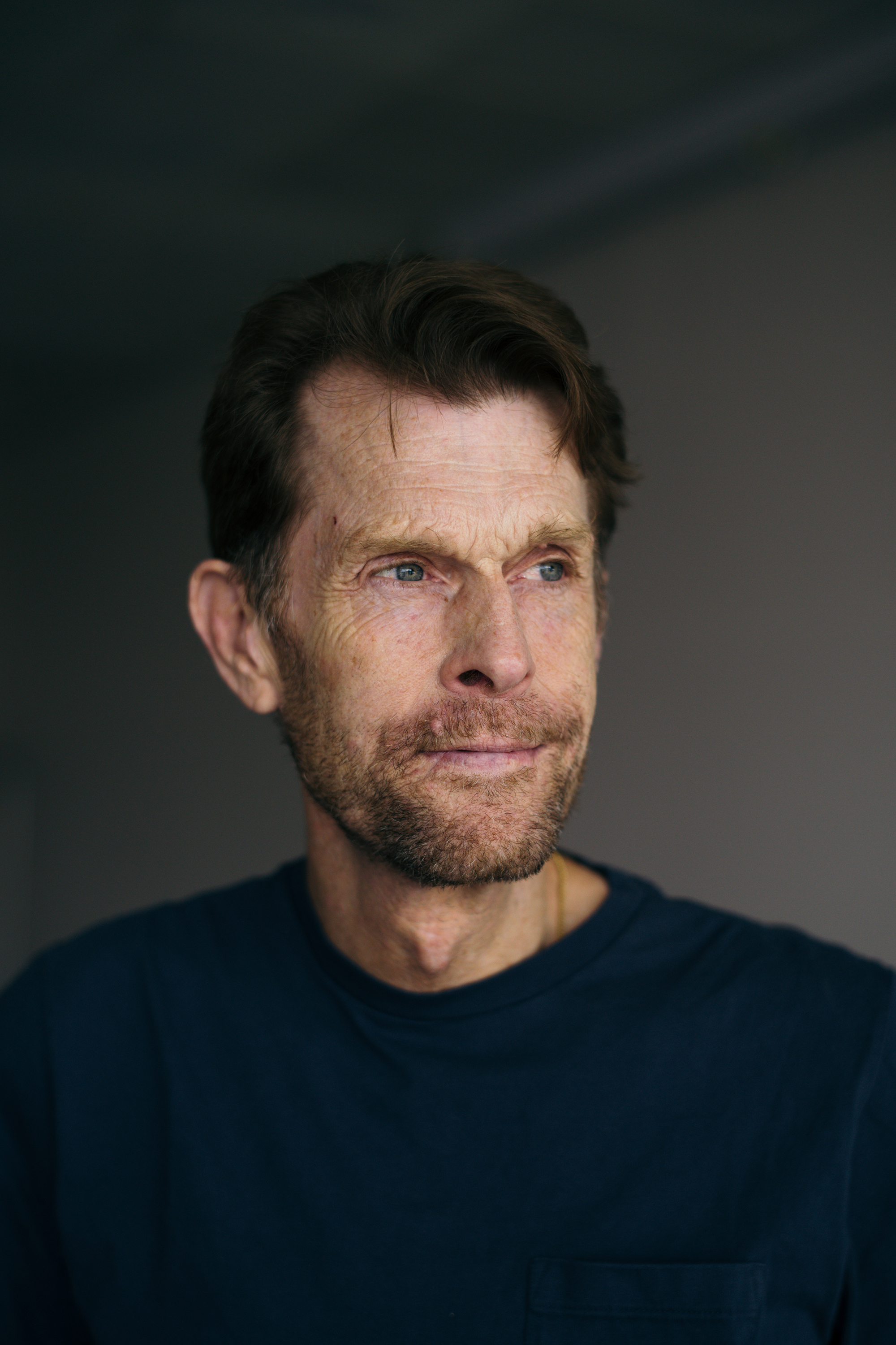 Portrait photograph of Kevin Conroy taken at MCM Comic Con.